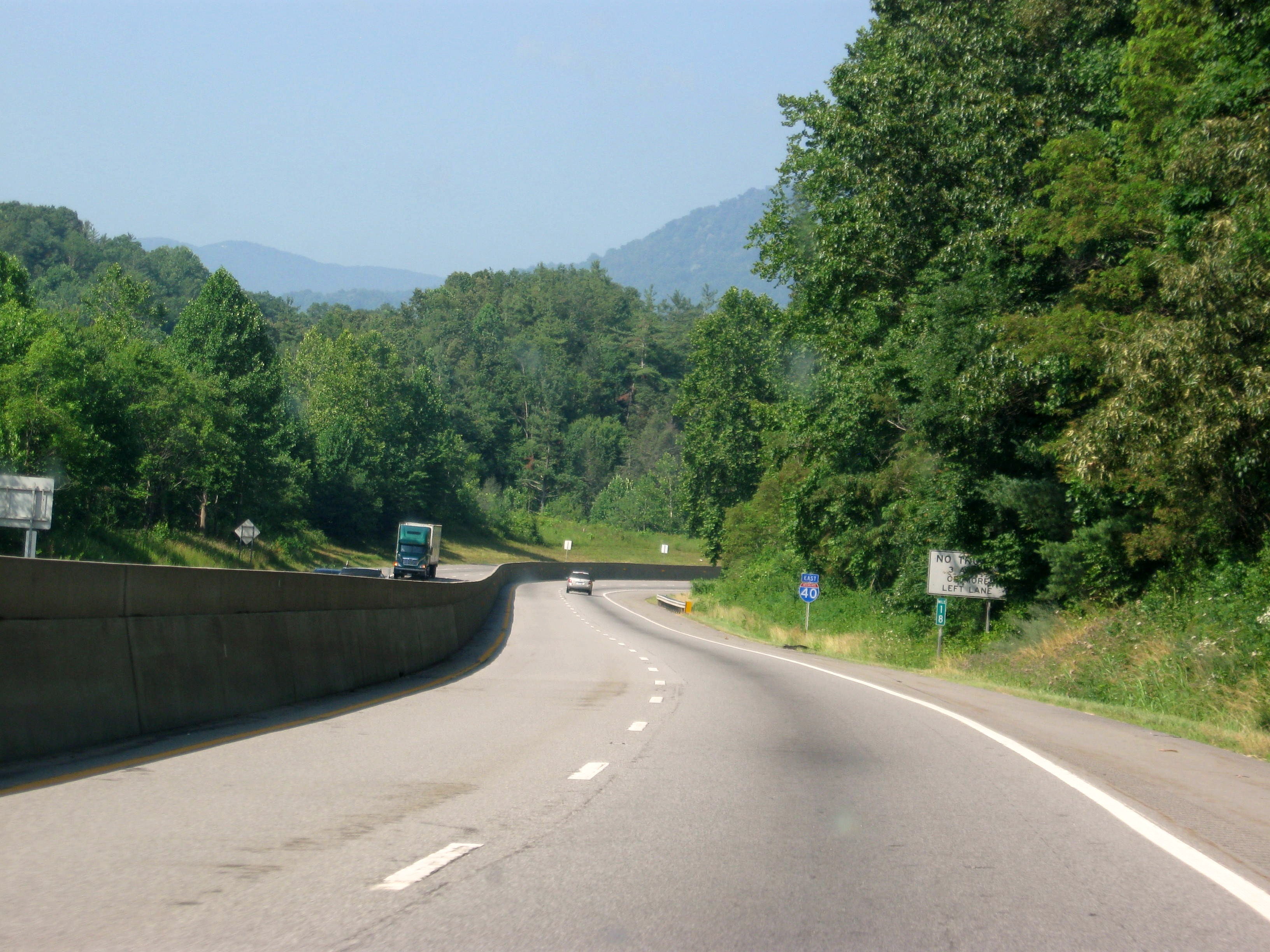 I-40 eastbound through the smoky mountains in NC.